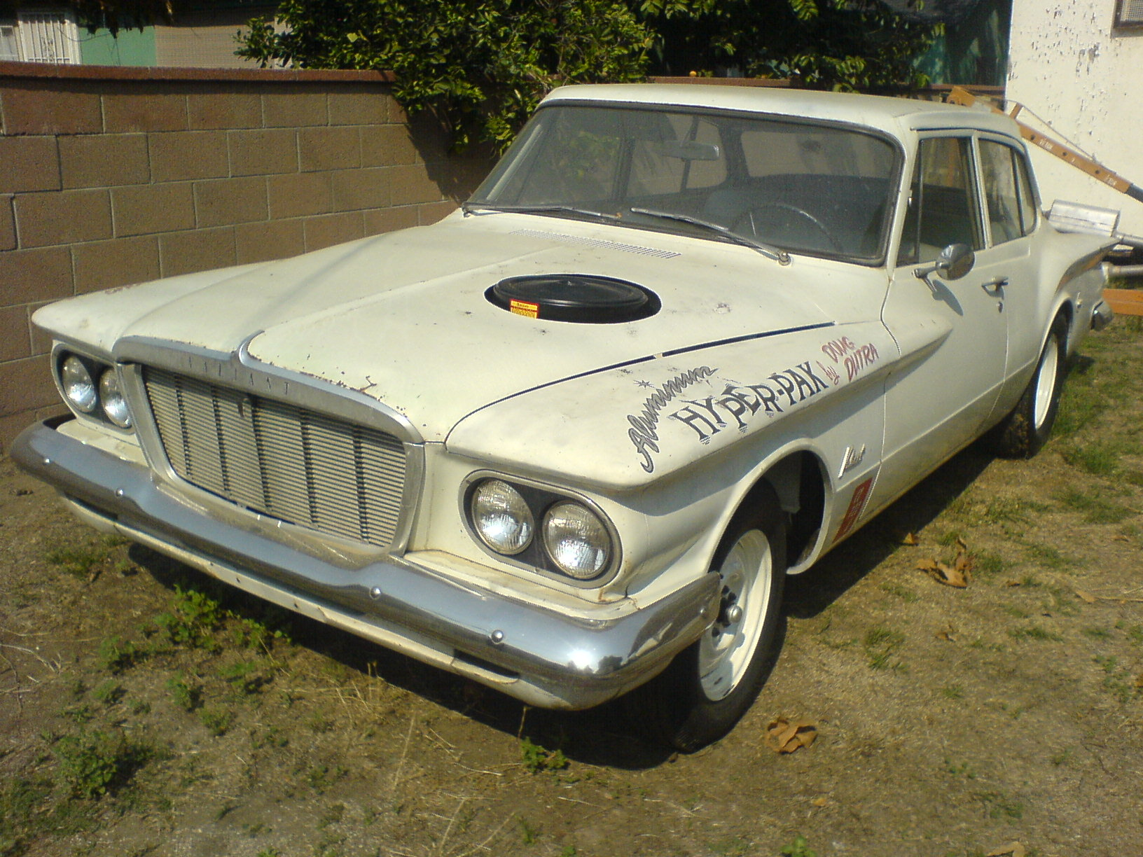 1962 Plymouth Valiant 2-door with Hyper Pak Photo taken in backyard in El Monte, California.